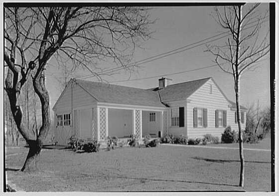 Title: Harbour Green, Massapequa, Long Island. Abstract/medium: Gottscho-Schleisner Collection (Library of Congress) Physical description: 1 negative